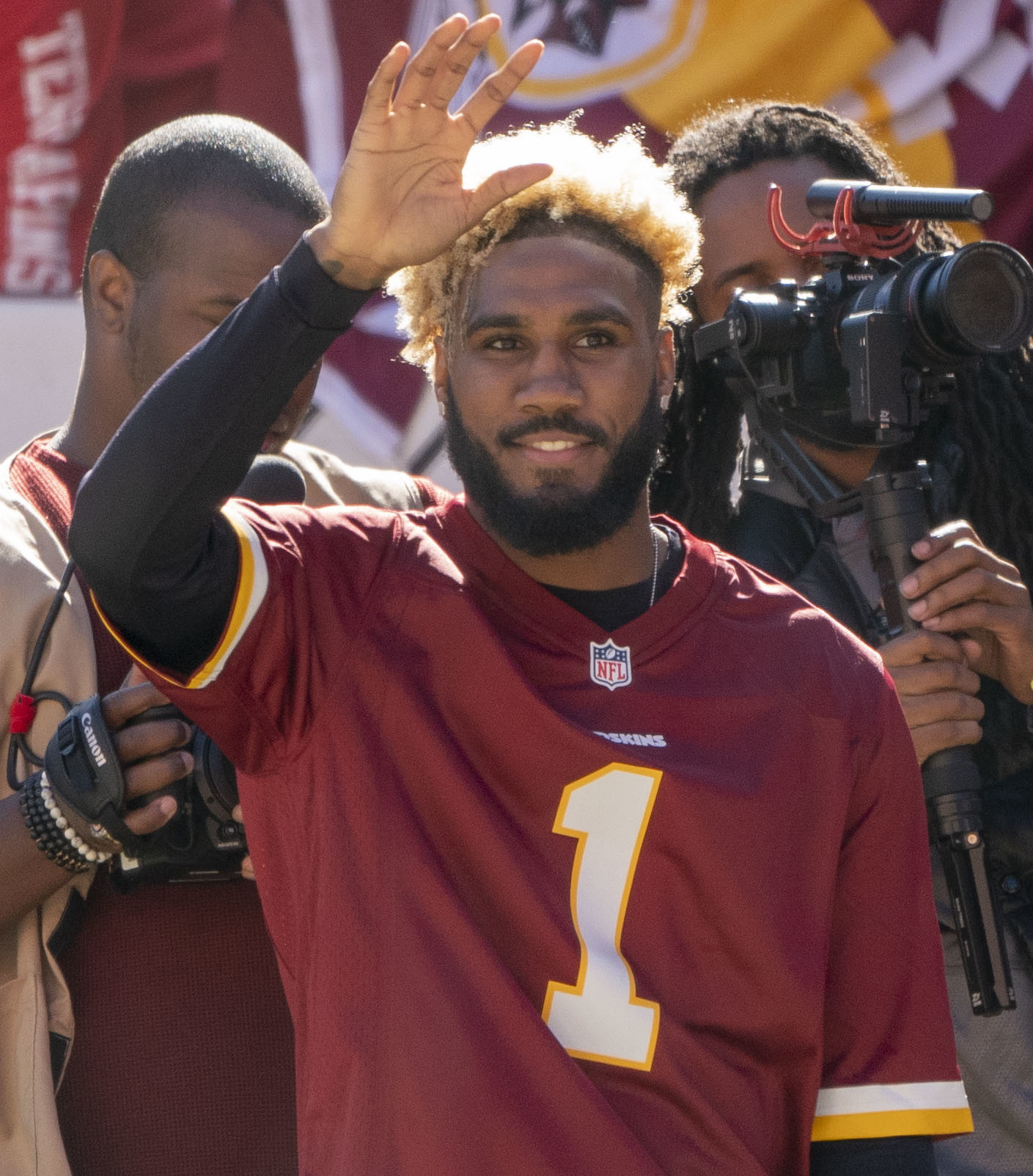 Boxer Jarrett Hurd wears a Washington Redskins jersey at FedEx Field in 2018.